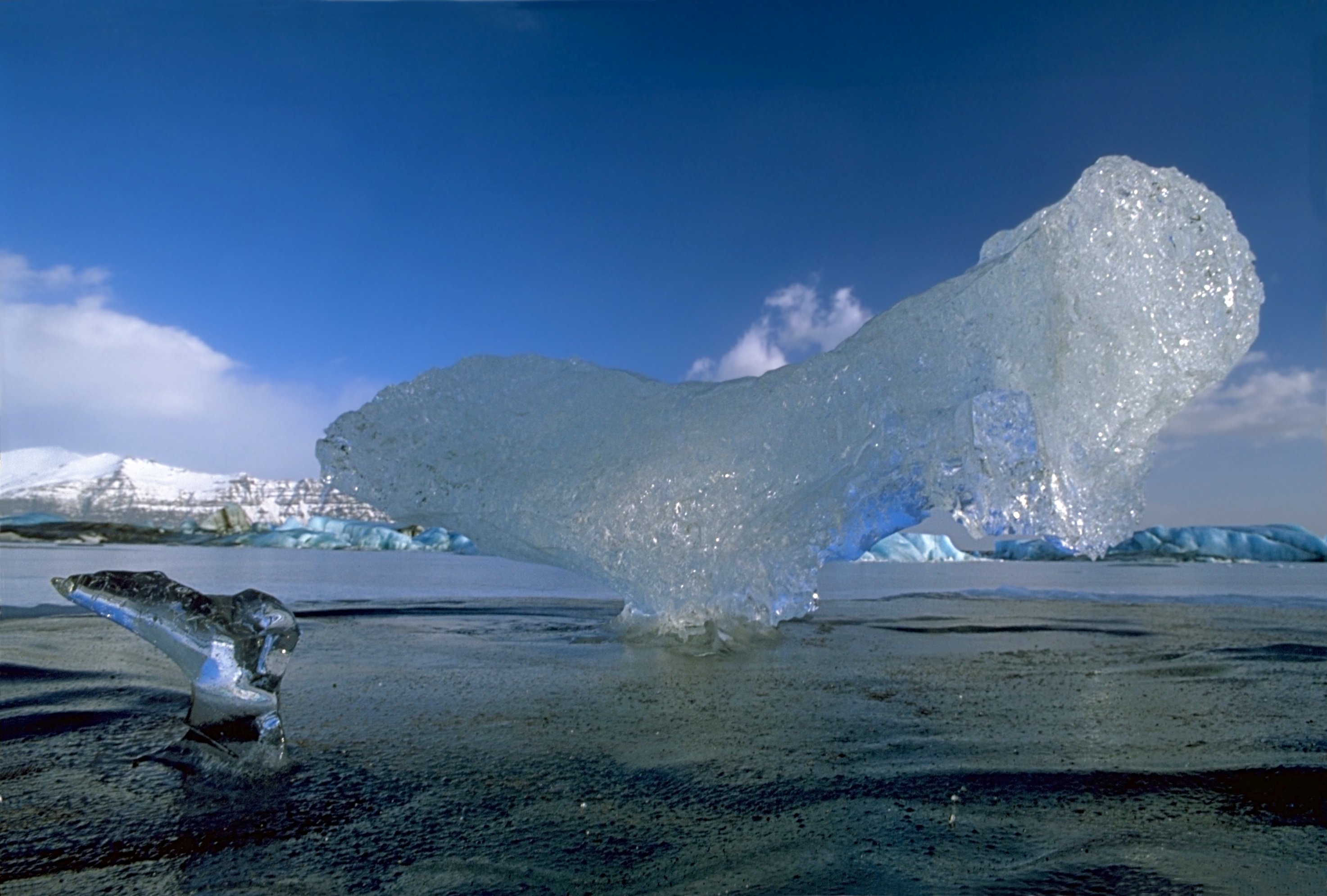 Icebird with fledgling, iceberg on Jökullsarlon, Iceland Photo was taken using the following technique: Film: Fuji Velvia Lens: 2.8/20 Filter: none Body: Minolta Dynax 7 Support: Camera on the floor Image with Information in English Bild mit Informationen auf Deutsch